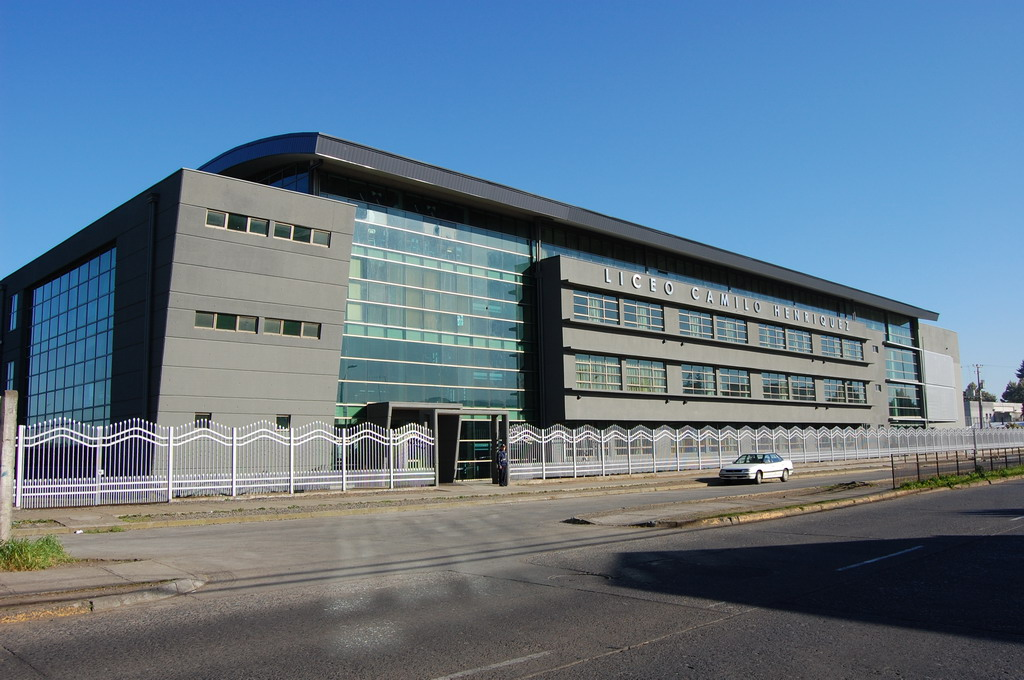 Liceo Camilo Henriquez, Temuco.